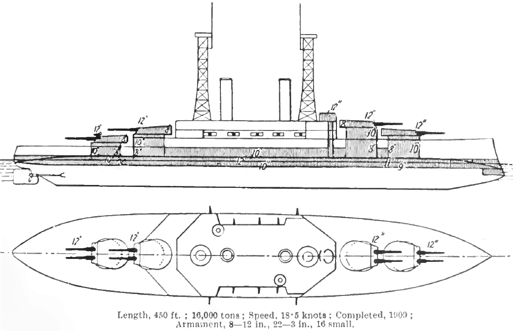 Sketches of armament and armour (shaded area) of South Carolina class battleships.